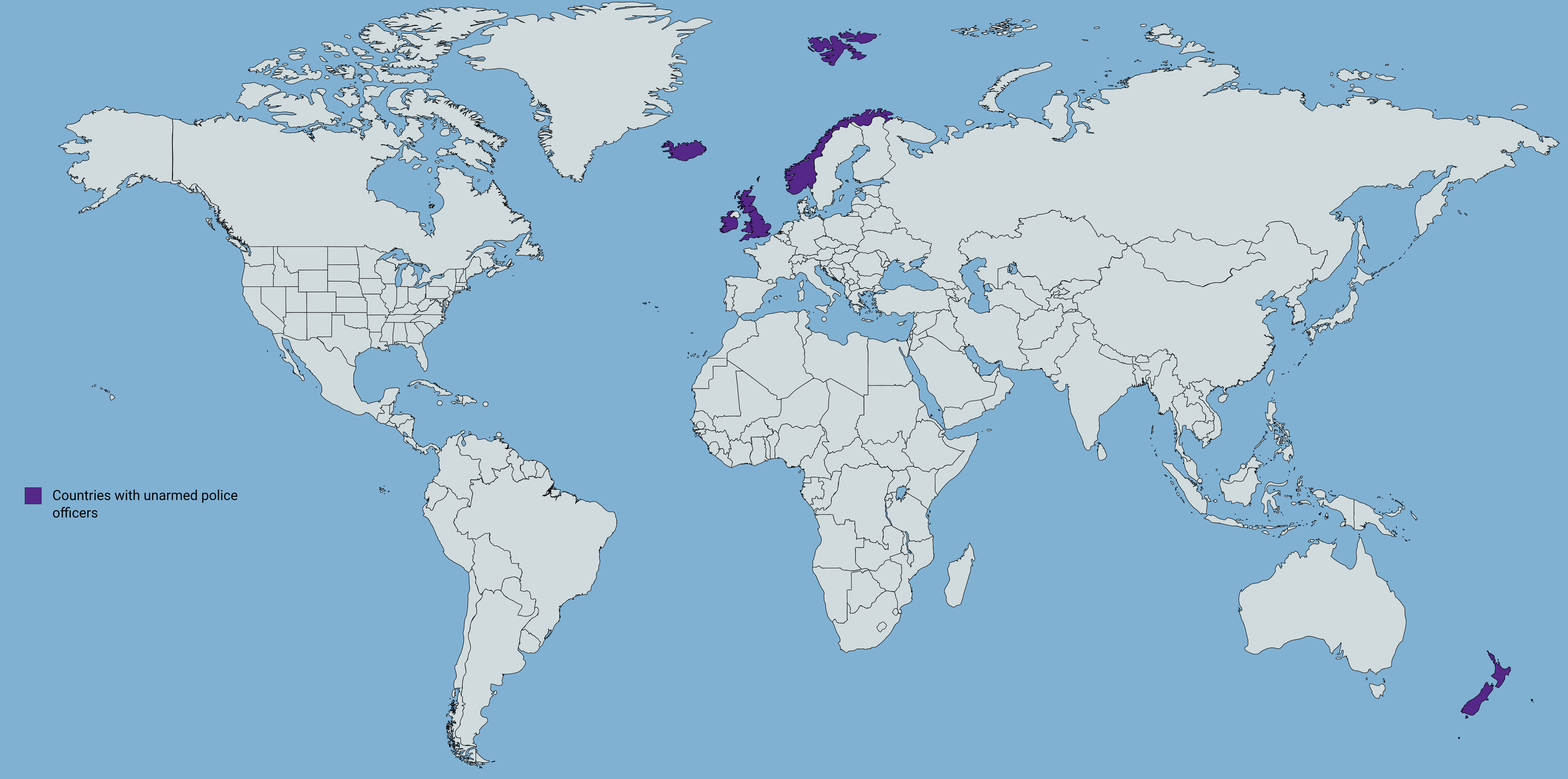 Countries with unarmed police officers